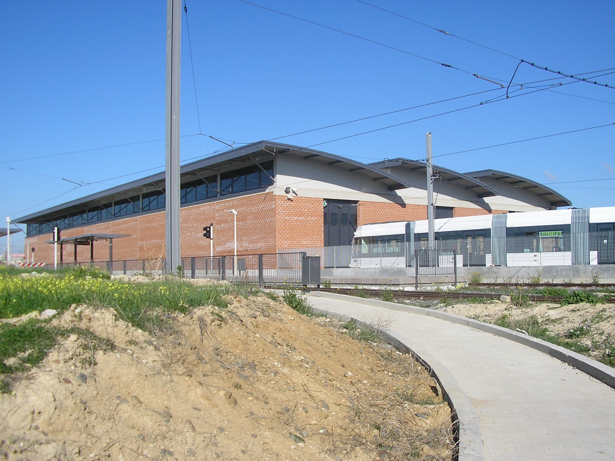 Tram Skoda 06T of the light railway of Cagliari (Sardinia, Italy) parked in front of the FdS garages of Monserrato. On the left the halt of Monserrato Gottardo, terminus of the line 1 of the light rail and of the railway for Isili